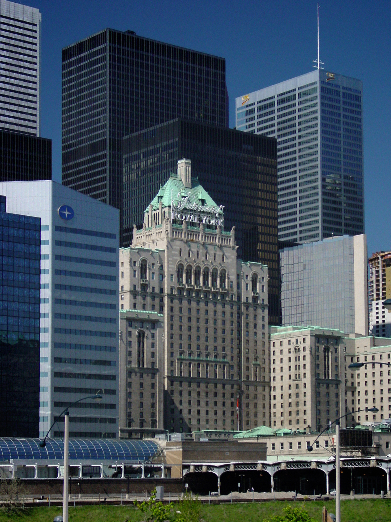 The Royal York, once the largest hotel and tallest building in the British empire, now dwarfed by all the bank buildings. Toronto, Canada.